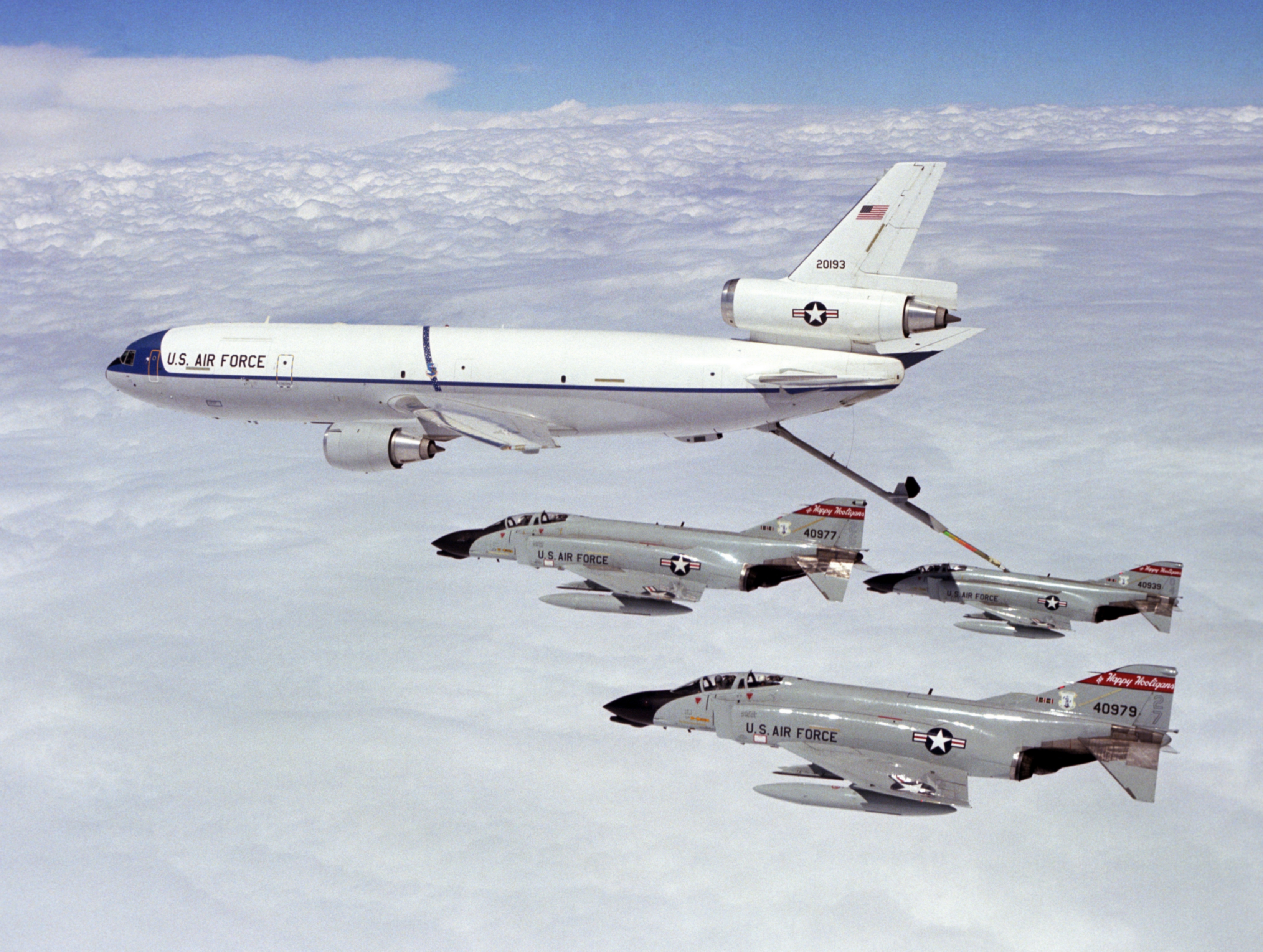 Three U.S. Air Force McDonnell F-4D Phantom II aircraft assigned to the 178th Fighter Squadron, 119th Fighter Wing "The Happy Hooligans", North Dakota Air National Guard, conduct mid-air refueling from a McDonnell Douglas KC-10A Extender (s/n 82-0193), in 1985.